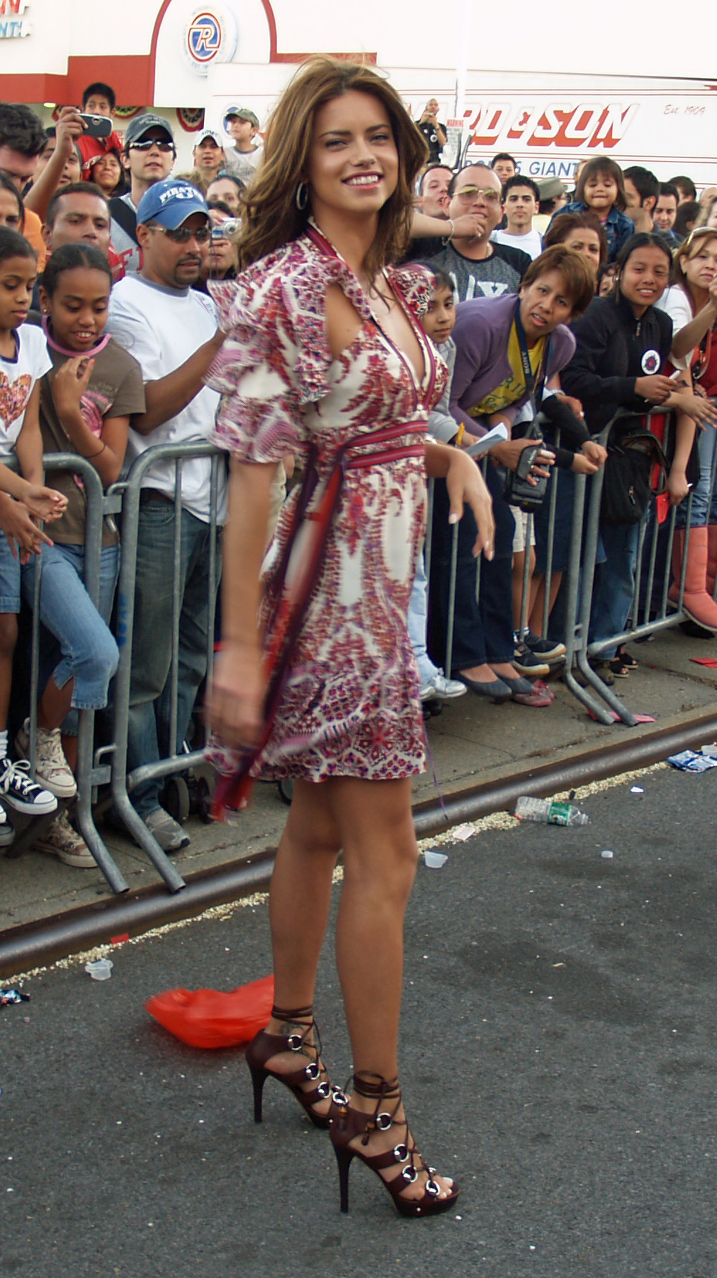 Adriana Lima at the premiere of Spiderman 3 at the 2007 Tribeca Film Festival in Queens, New York.